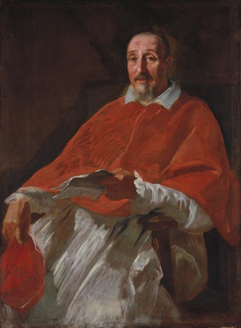 Portrait of Lelio Biscia (1575-1638)